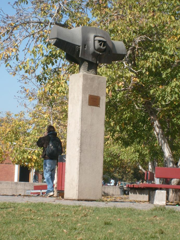 Egenau's Ancestro Uno (Ancestor One), in Campus san Joaquin, Catholic University, Santiago Chile